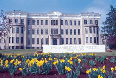 Created image myself. Created image myself.